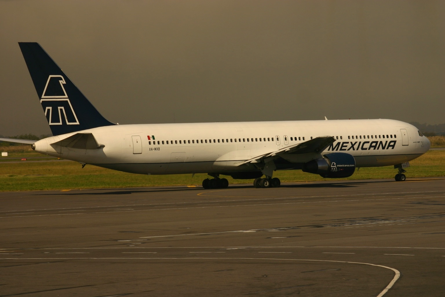 At Buenos Aires Ezeiza